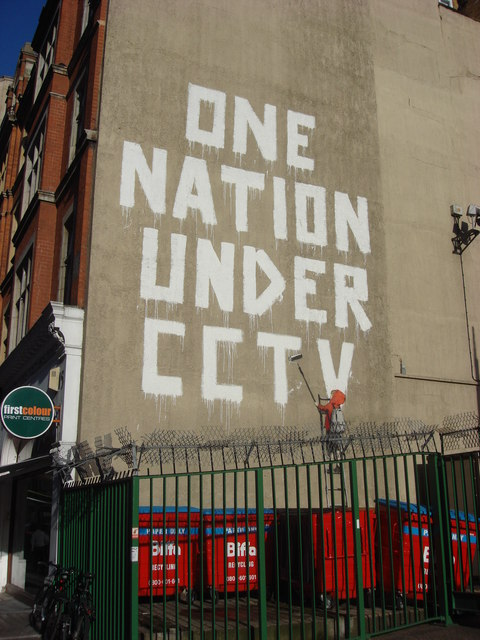 One nation under CCTV Street art believed to be by the pseudo-anonymous British graffiti artist Banksy for more information see Bansky's website Or The Wikipedia article on him